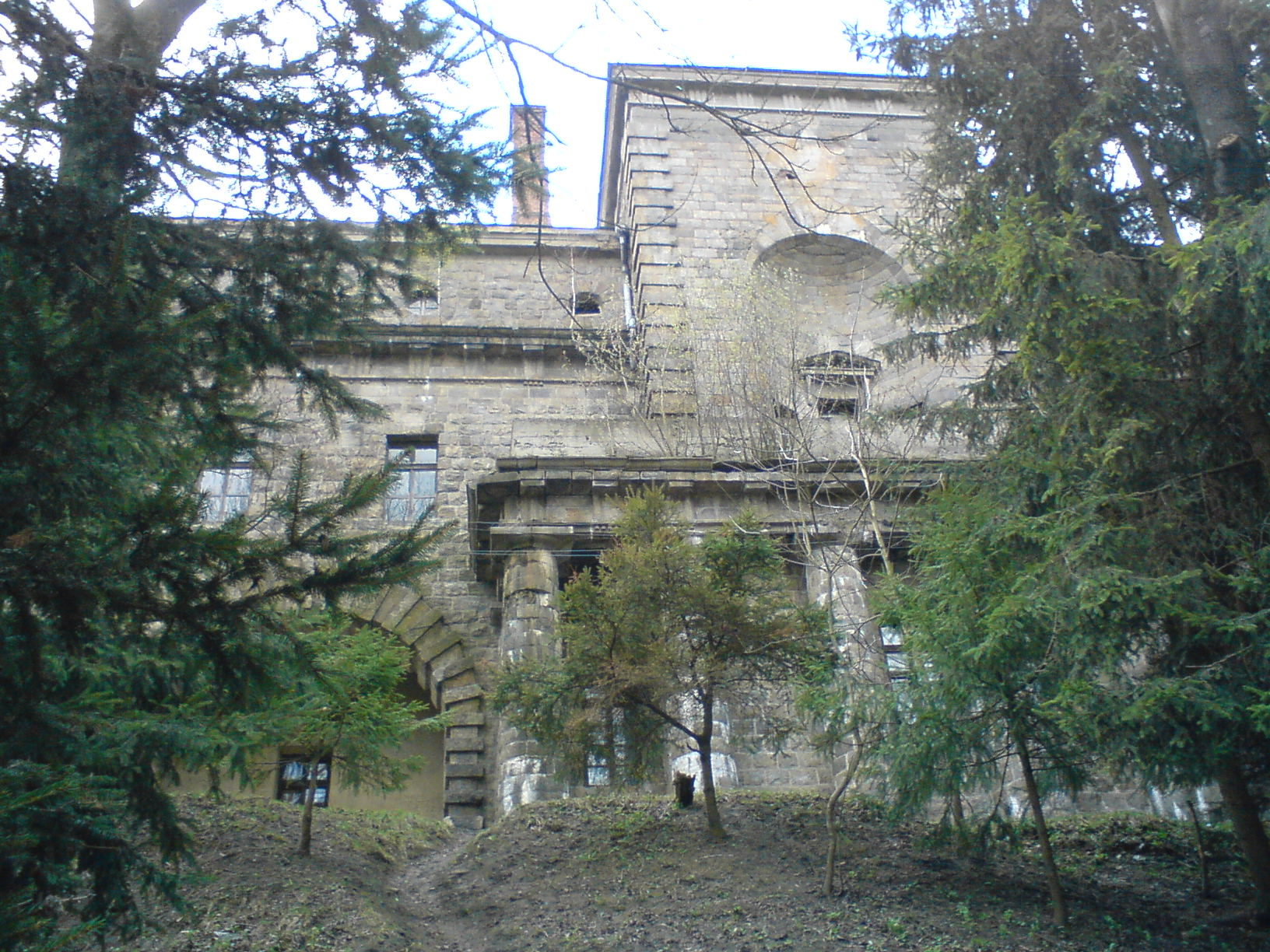 the palace of earl K.I. Ksido in Khmilnyk, in Vinnytsia Oblast, Ukraine